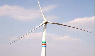 Wind power inchageri bijapur